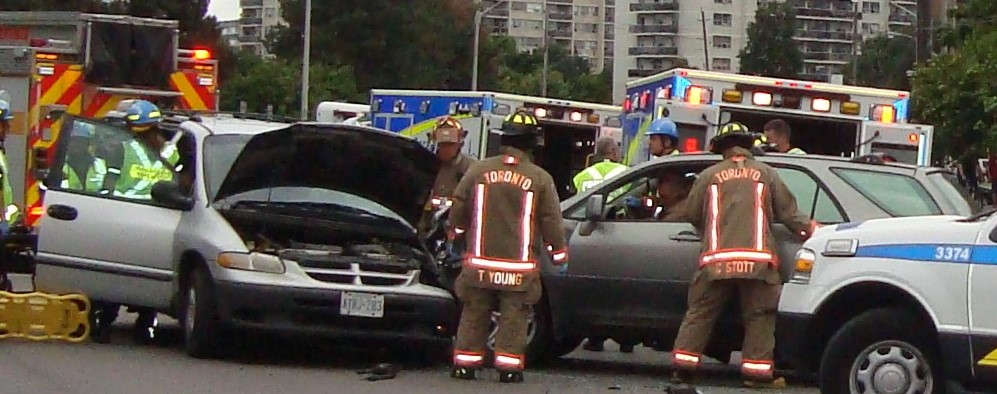 side collision in Toronto, Ontario